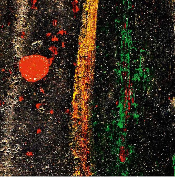 Cultural Counsellor Veijo Baltzar, "The Nordic Tango"